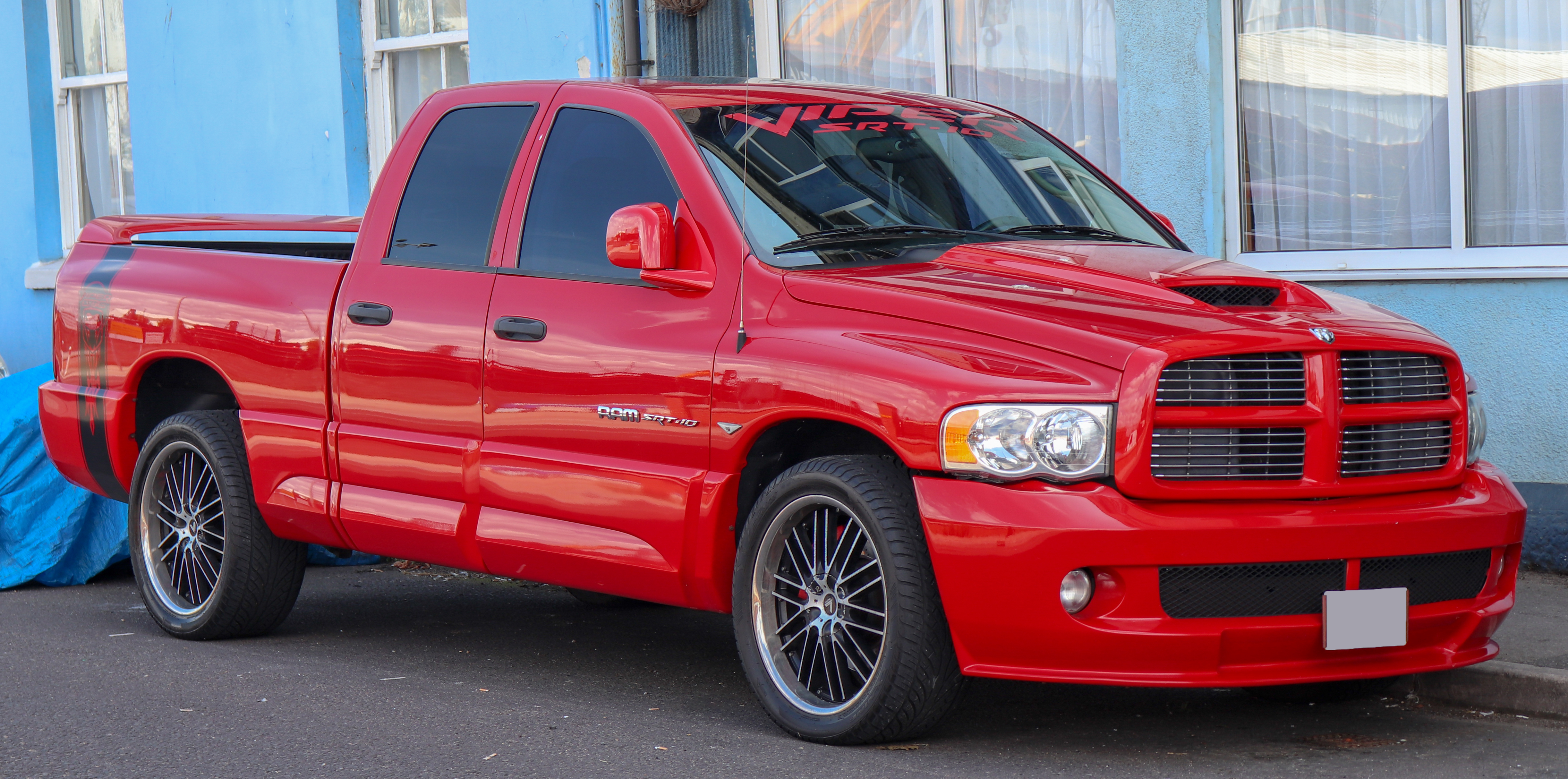 2005 Dodge RAM SRT-10 8.3 Front Taken in Castletown, Isle of Portland, Dorset